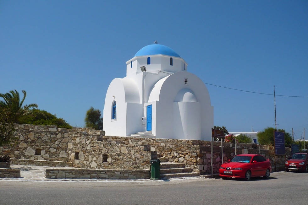 The main church at Antiparos square in Greece.